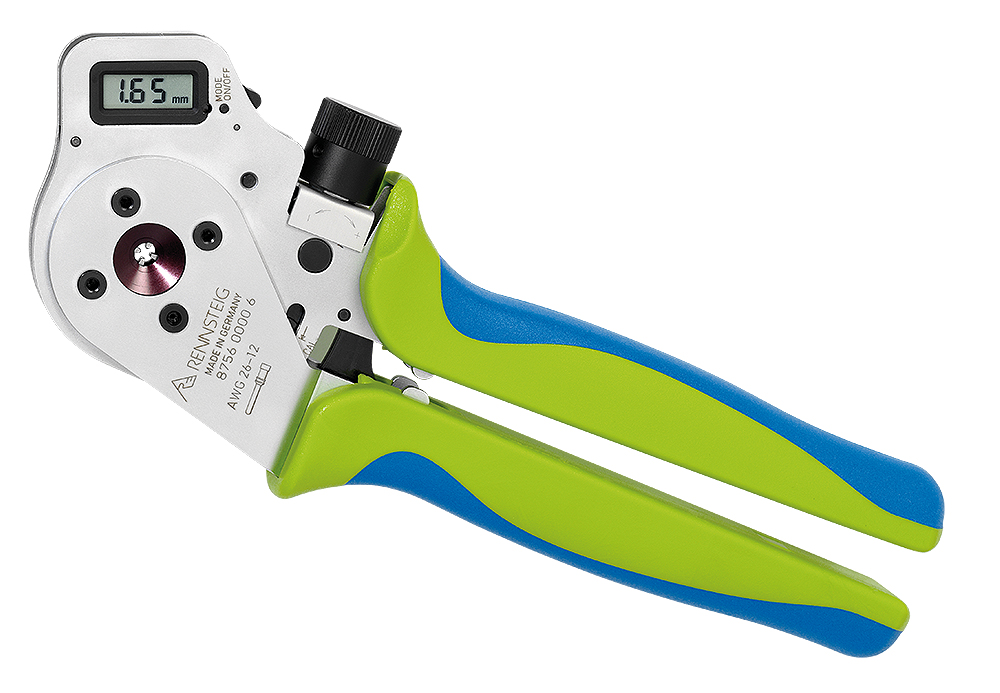 4/8 indent crimping tool DigiCrimp MIL (Rennsteig Werkzeuge GmbH)